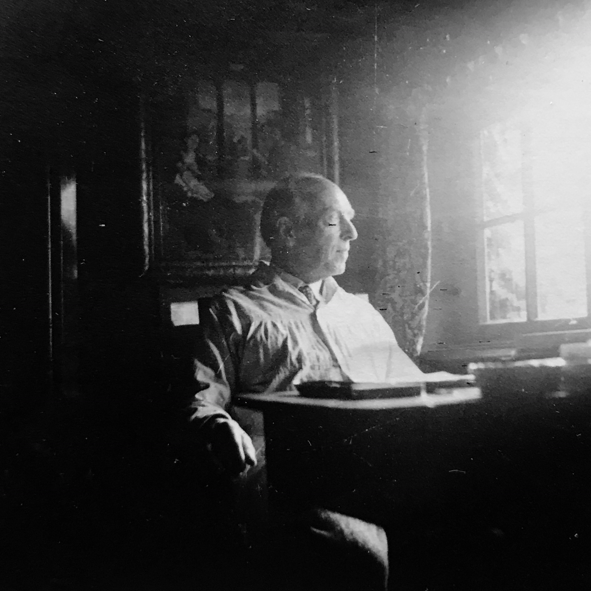 Rudolf Schaefer, drawer and illustrator, in his home in Rotenburg (Wümme), Germany